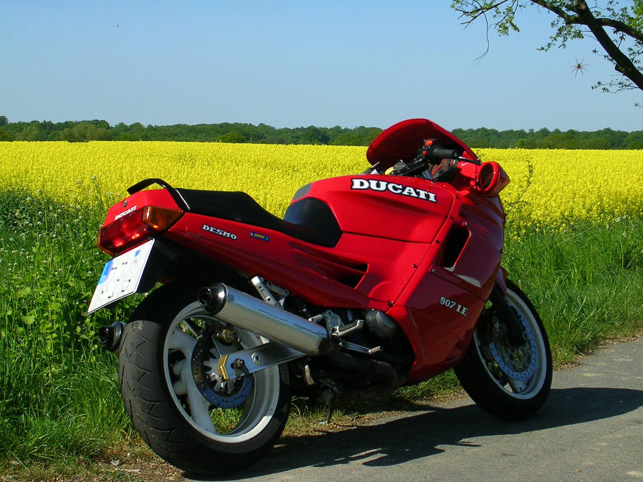 Ducati 907 i.e. "paso" December 1992. One of the last ones built. From 1992 to 2010 this one has run 92,000 km with the original engine.